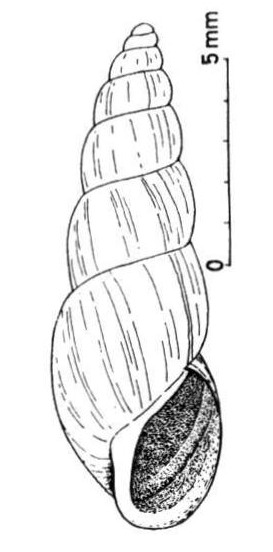 Drawing of apertural view of a shell of Omphiscola glabra